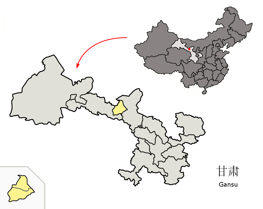 Location of Jinchang Prefecture (yellow) within Gansu province of China Map drawn in october 2007 using various sources, mainly : Gansu province administrative regions GIS data: 1:1M, County level, 1990 Gansu Counties map from Similar to [1]